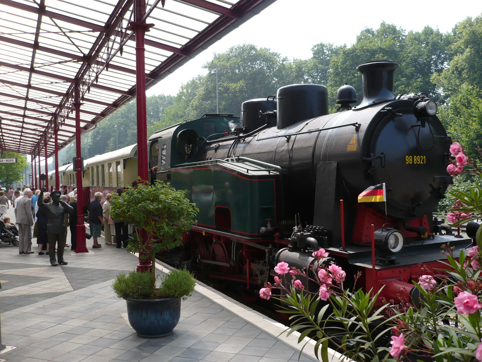 Krefeld steam train "Schluff"